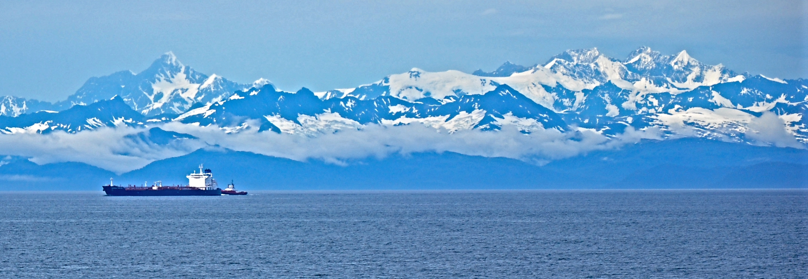 Mt. Gilbert (left, above ship) and Mt. Gannett (right) seen from Prince William Sound, Alaska